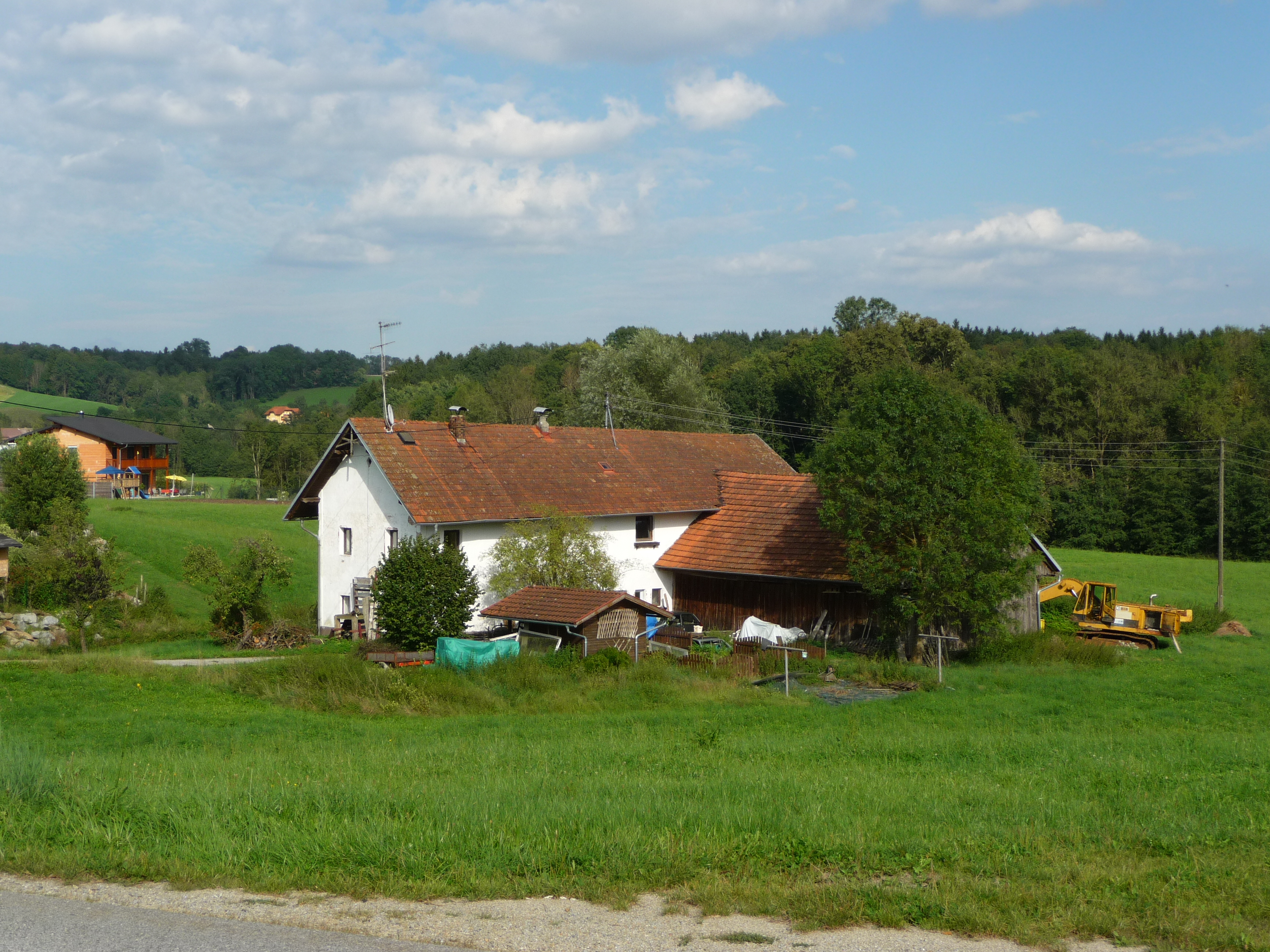 Building at the site of the former Schwendt castle, Taufkirchen an der Pram municipality, Upper Austria